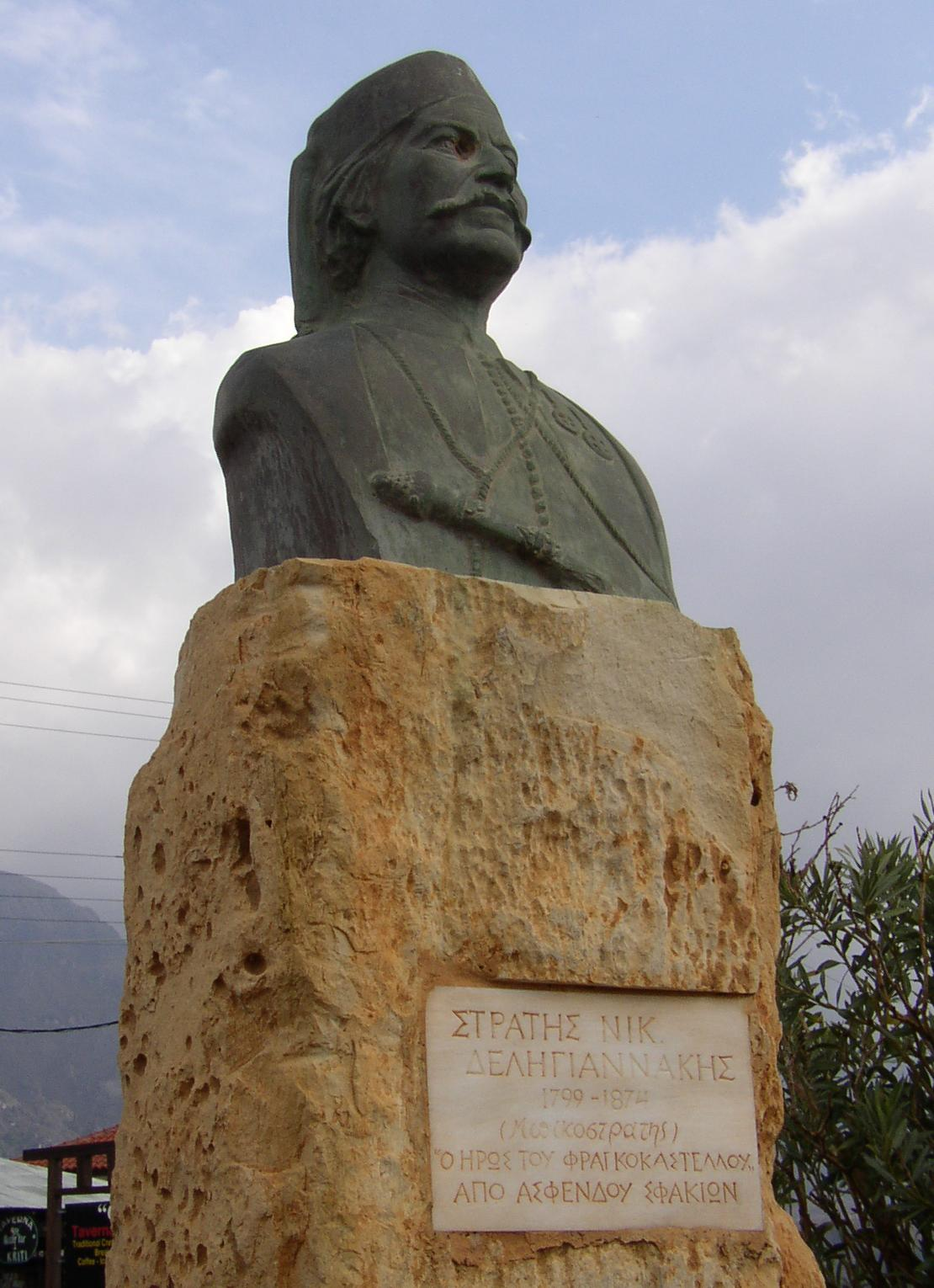 Bust of Stratis Nik. Deligiannakis in Frangokastello, Greece